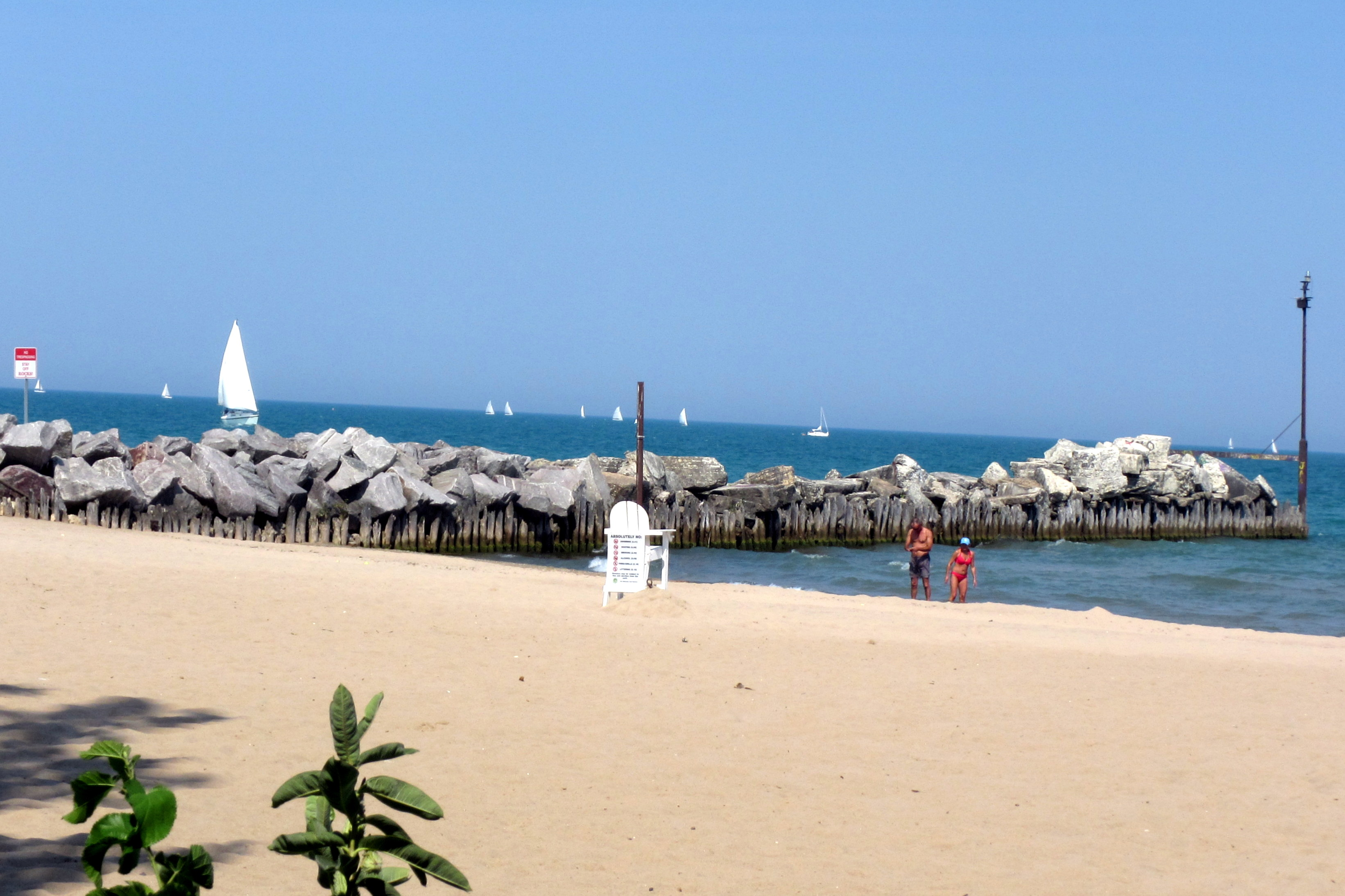 Sandy Beach in Gillson Park